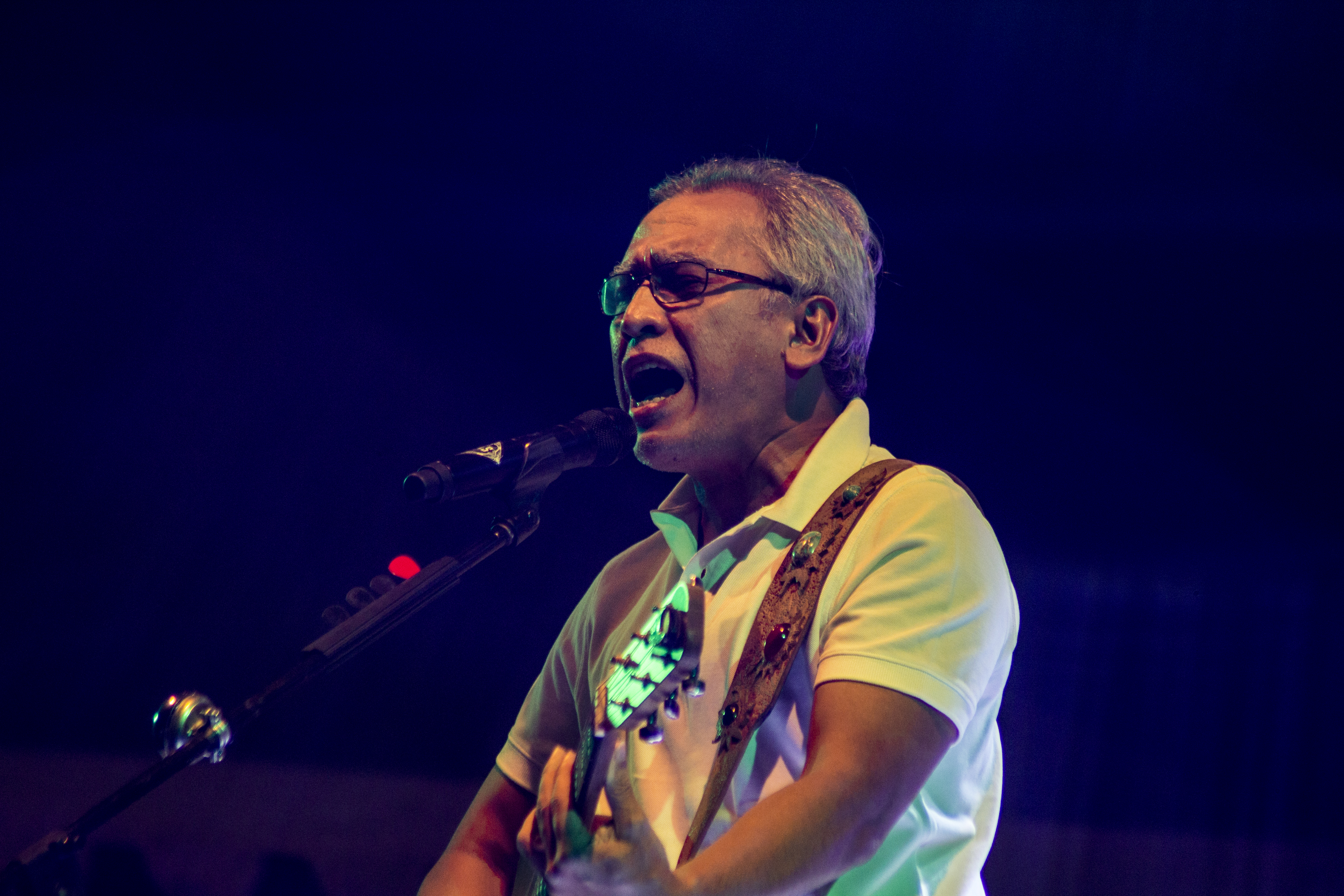 Iwan Fals by Mas Agung Wilis Yudha Baskoro